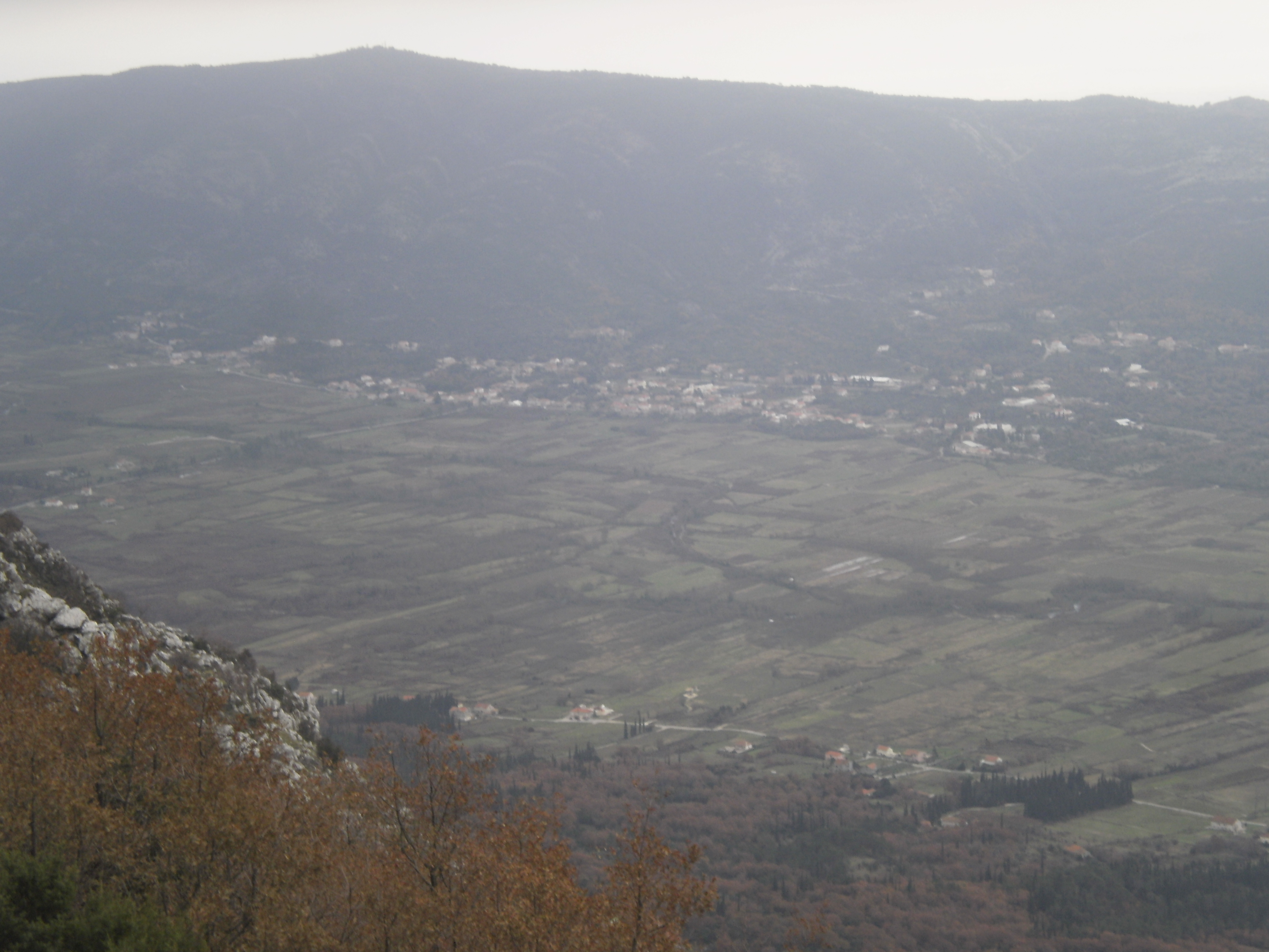 Konavle field OLYMPUS DIGITAL CAMERA